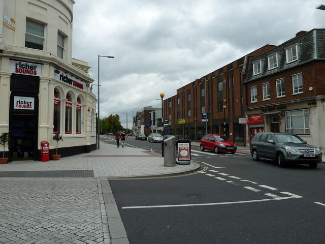 Junction of Carlton Crescent and London Road, Southampton